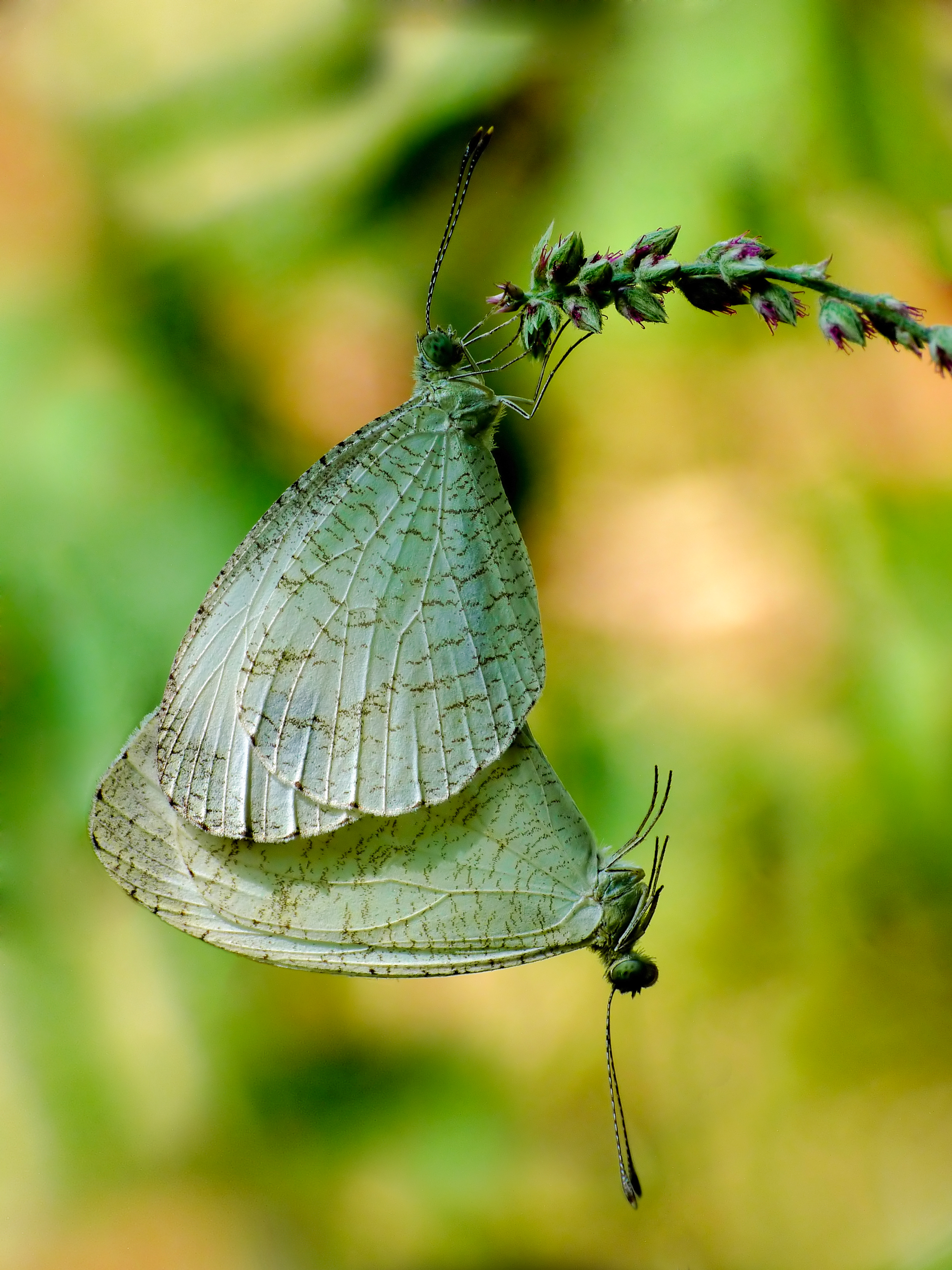 The Psyche (Leptosia nina) is a small butterfly of the family Pieridae (The Sulphurs, Yellows and Whites) and is found in Southeast Asia and the Indian subcontinent. The upper forewing has a black spot on a mainly white background. The flight is weak and erratic and the body of the butterfly bobs up and down as it beats its wings. They fly low over the grass and the butterfly rarely leaves the ground level. Taken at Kadavoor, Kerala, India.